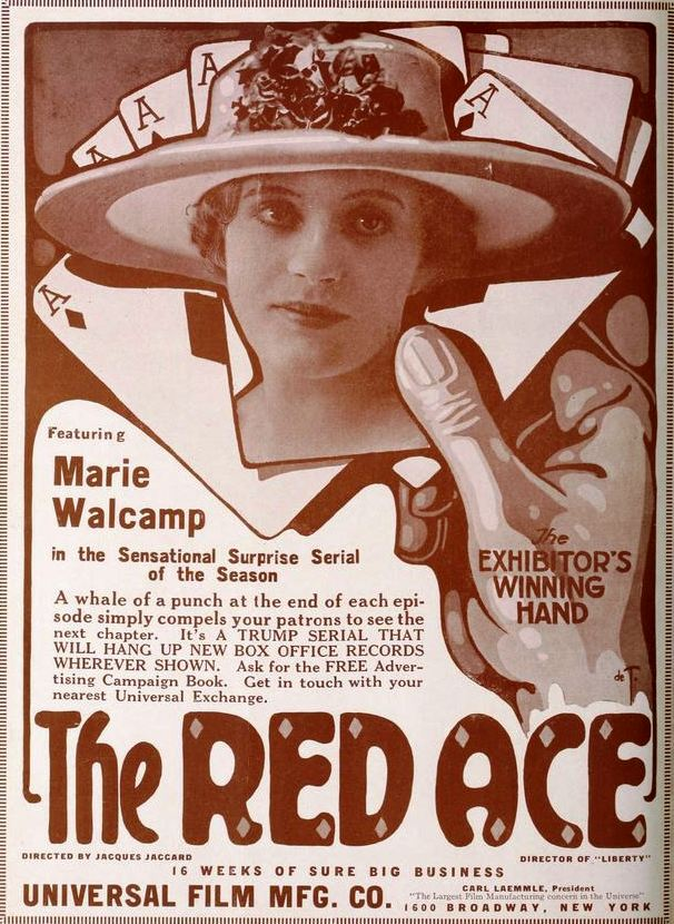 Advertisement for the American film serial The Red Ace (1917) with Marie Walcamp, on the inside front cover of the September 8, 1917 Exhibitors Herald.